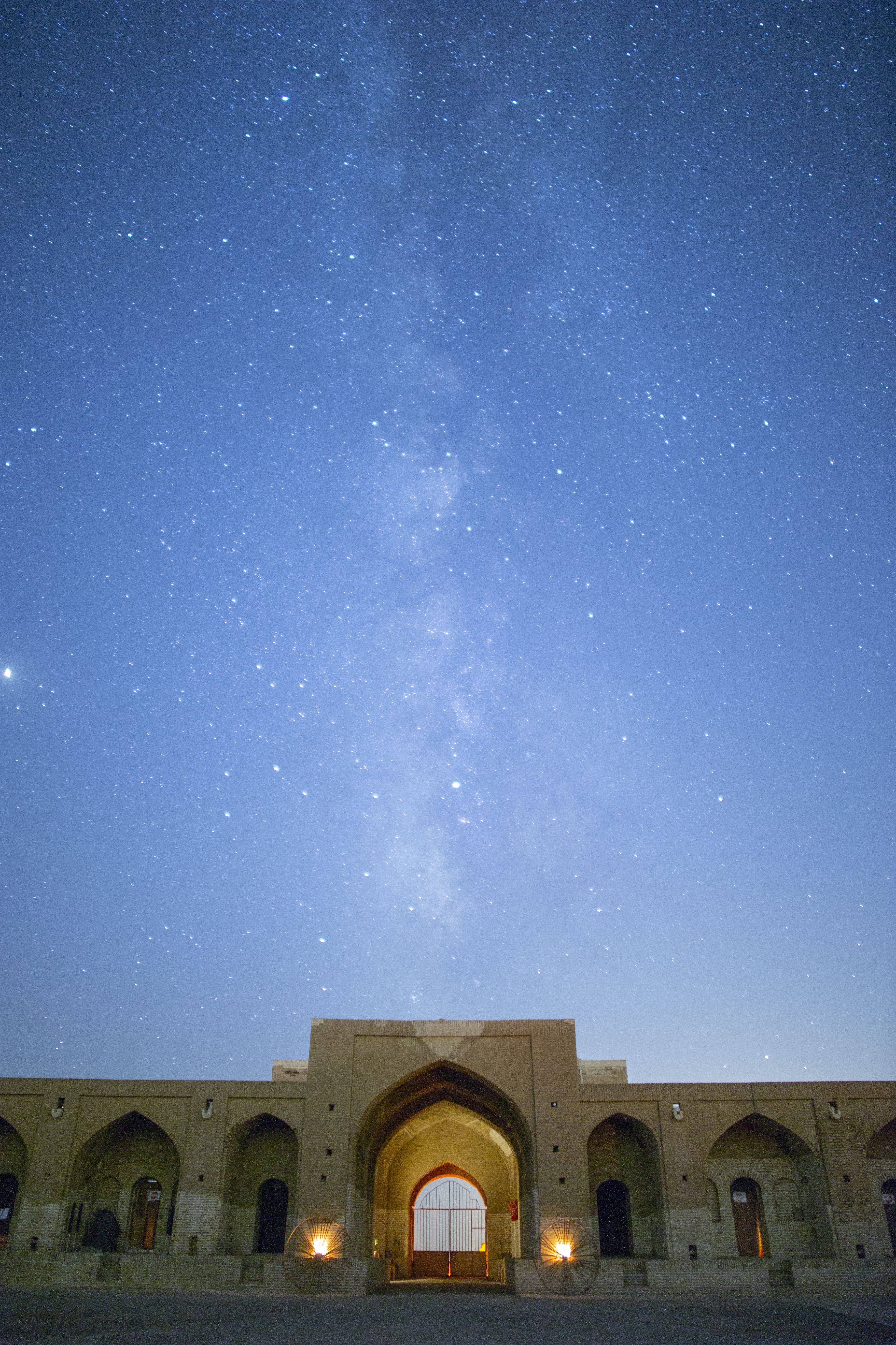 Deir-e Gachin Caravansarai is one of the greatest caravansarais of Iran which is located in the center of Kavir National Park. Its unique qualities is the reason it is called “Mother of Iranian Caravansarais”. It is located in the Central District of Qom County, 80 kilometers north-east of Qom (60 kilometers into Garmsar Freeway) and 35 kilometers south-west of Varamin. (Photo by: Mostafa Meraji, wiki loves monuments 2018)